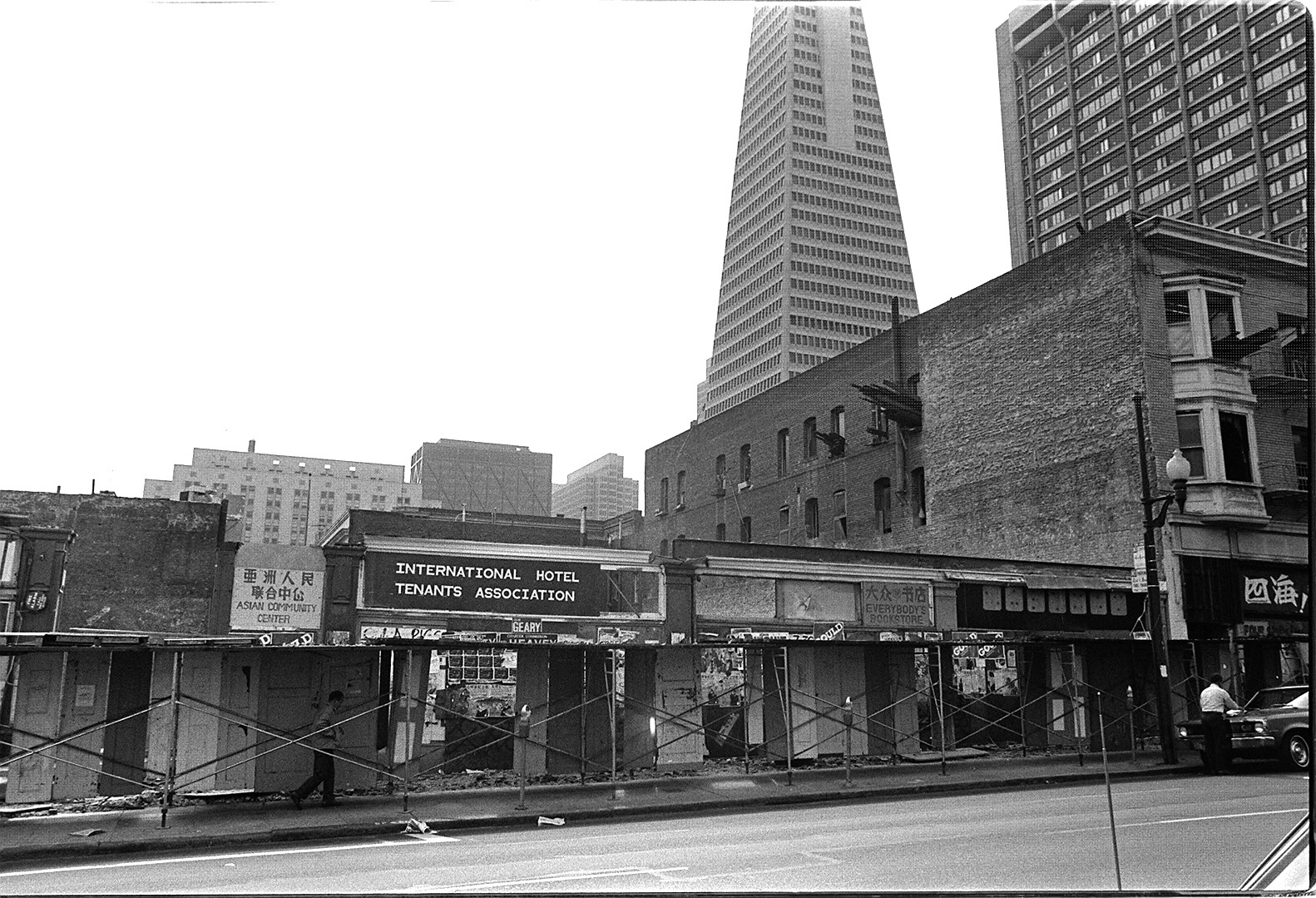 International Hotel, Kearny Street near Jackson in San Francisco, around 1979. Photo by Nancy Wong